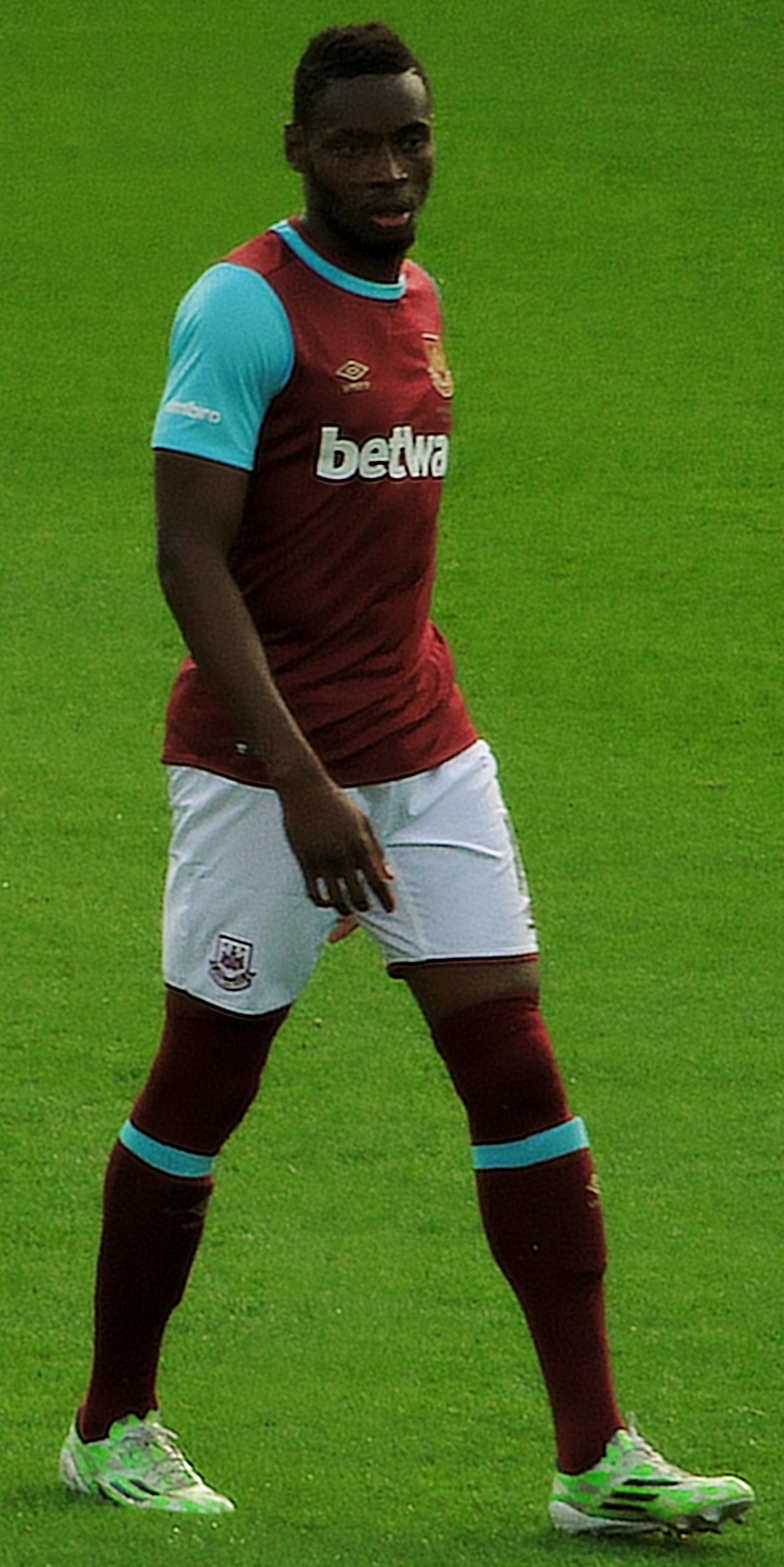 West Ham United player, Diafra Sakho warming-up before their Europa League game against FC Lusitans at the Boleyn Ground, July 2015